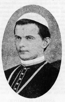 Photo of Archbishop in Zagreb Josip Juraj Posilović (1834-1914)